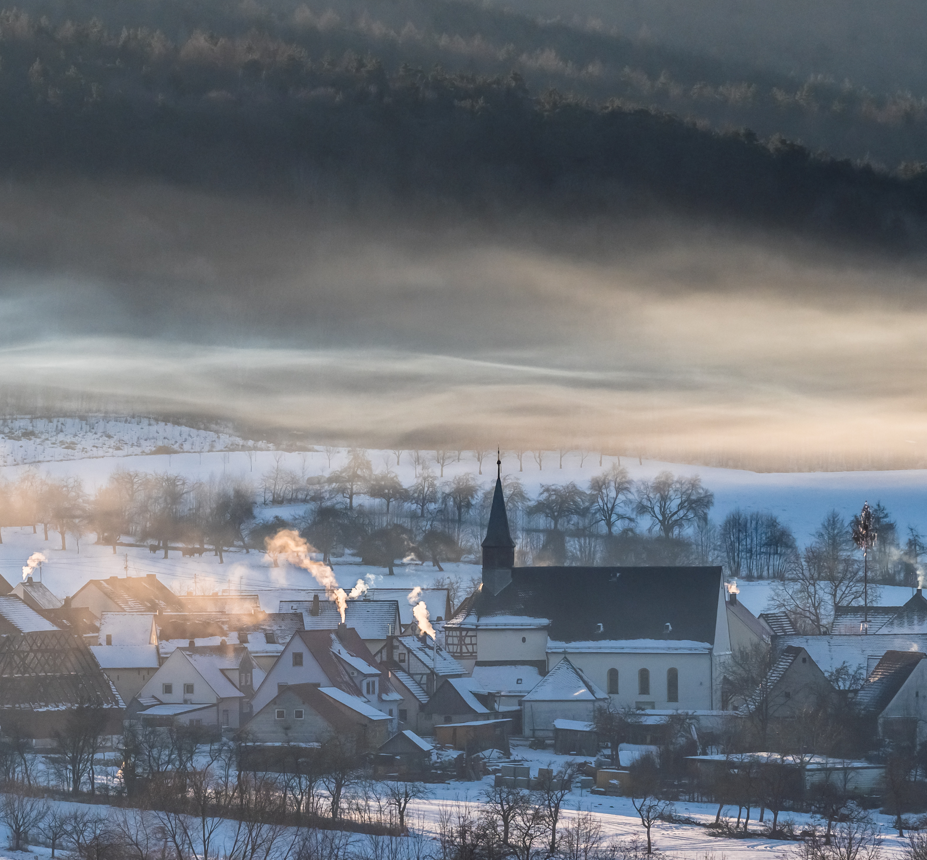 Church Maria Heimsuchung in Drosendorf near Buttenheim. The morning mist mixes here with the smoke of the house fireplaces.